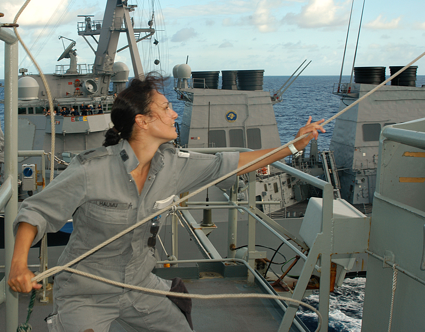 Pacific Ocean (July 12, 2004) – Aboard the Australian replenishment vessel HMAS Success (AOR 304), Able Seaman Communications Specialist Natalie Haumu, left, from Brisbane, Australia, retrieves a signal flag as the ship begins a Refuel At Sea (RAS) operation with the guided missile destroyer USS John Paul Jones (DDG 53). Both ships are participating in exercise Rim of the Pacific (RIMPAC) 2004. RIMPAC is the largest international maritime exercise in the waters around the Hawaiian Islands. This year's exercise includes seven participating nations; Australia, Canada, Chile, Japan, South Korea, the United Kingdom and the United States. RIMPAC is intended to enhance the tactical proficiency of participating units in a wide array of combined operations at sea, while enhancing stability in the Pacific Rim region. U.S. Navy photo by Photographer's Mate 2nd Class Bradley J. Sapp (RELEASED) /